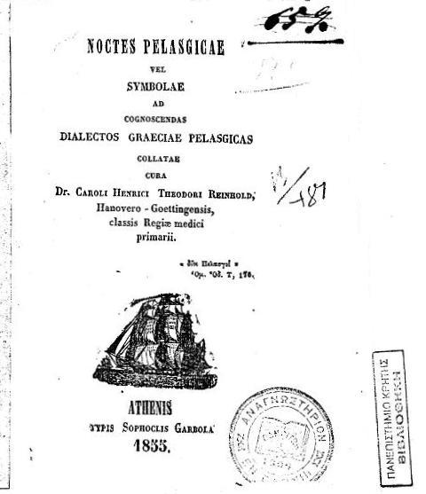 An early publication in Arvanitika, by Karl Reinhold, a physician in the Greek Navy, who learned the language and published 'Noctes Pelasgicae', with grammatical annotations, a little vocabulary and a collection of folk songs from Kalavrias, Hydra and Aliousas (Greece).